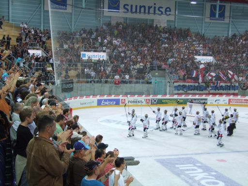 Players of HC Lugano say good bye to their fans, Diners Club Arena, Rapperswil, Switzerland, Opening game between HC Lugano & Rapperswil-Jona Lakers, Nationalliga A